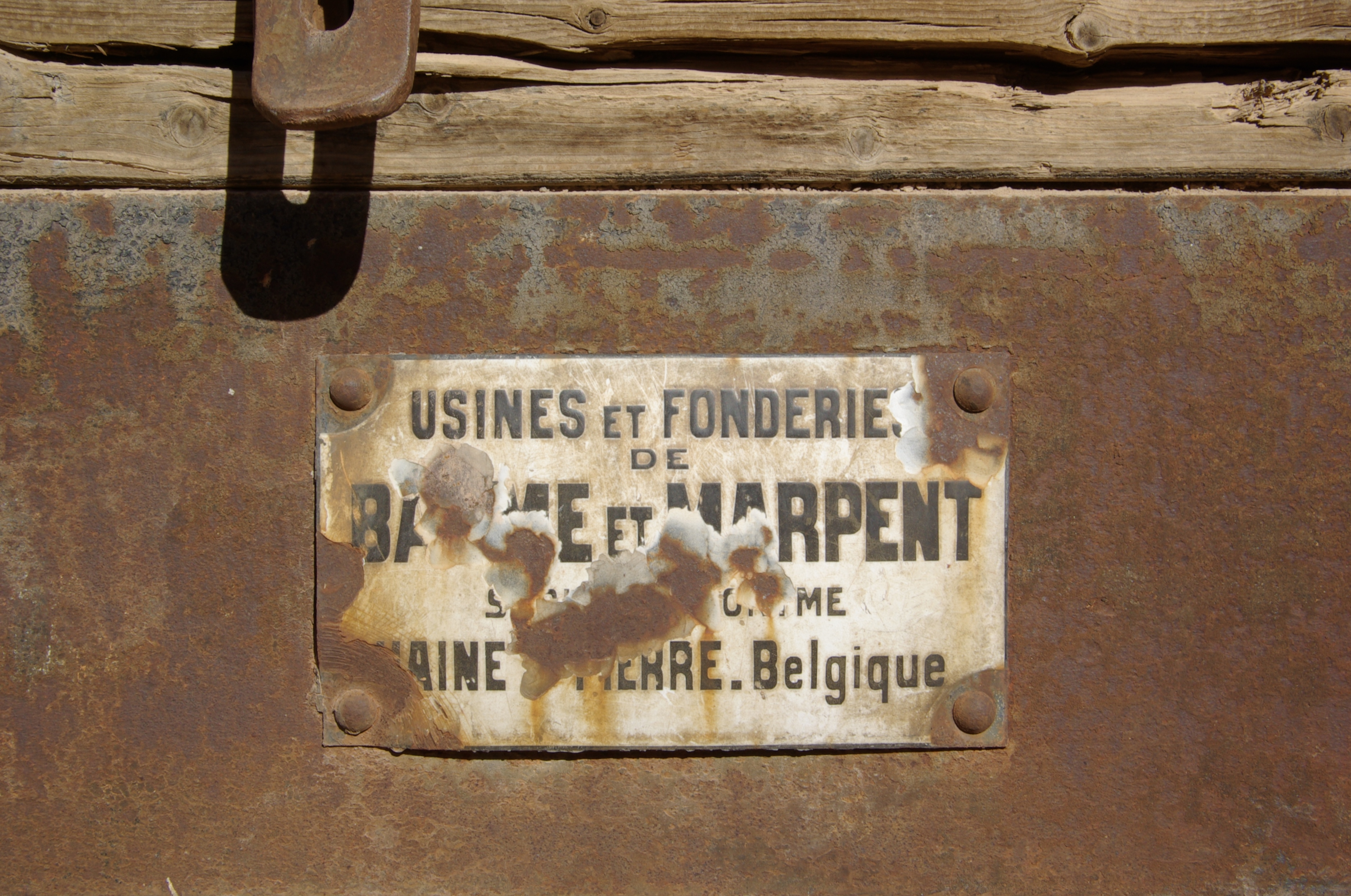 sign at a railroad car of the former Hedjas railway, now parked in Wadi Rum. This sign is from an old belgian society of railways constructions, founded in 1853 in Hainaut. The text is "Usines et fonderies BAUME et MARPENT, société anonyme, Haine Saint-Pierre, Belgique"